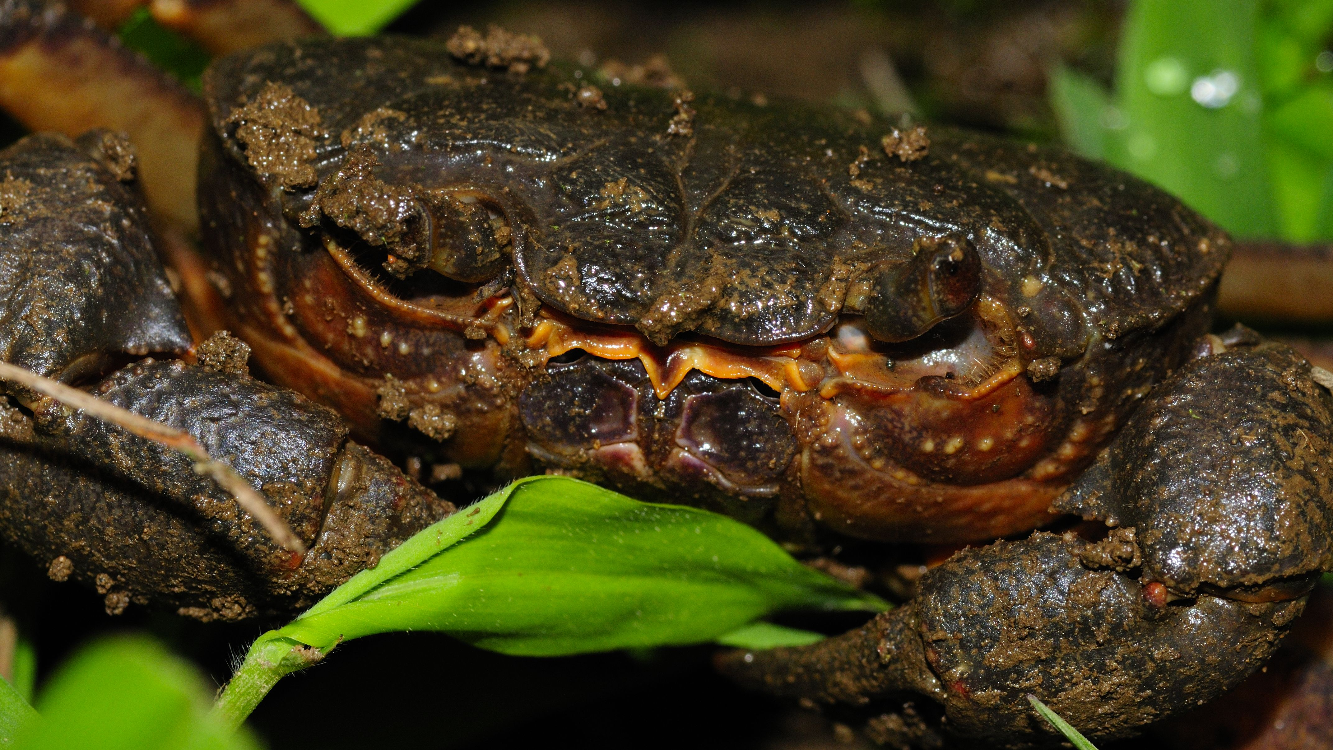 Potamon ibericum tauricum in the Mtirala Nationalpark in Georgia. Habitat: Ground hole on a forested slope ca. 15 m above a river.